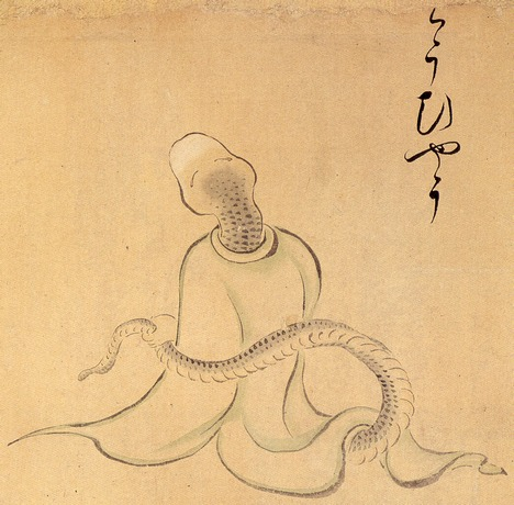 Tōbyō (とうびょう) from the Bakemono-Dukushi (化物づくし)